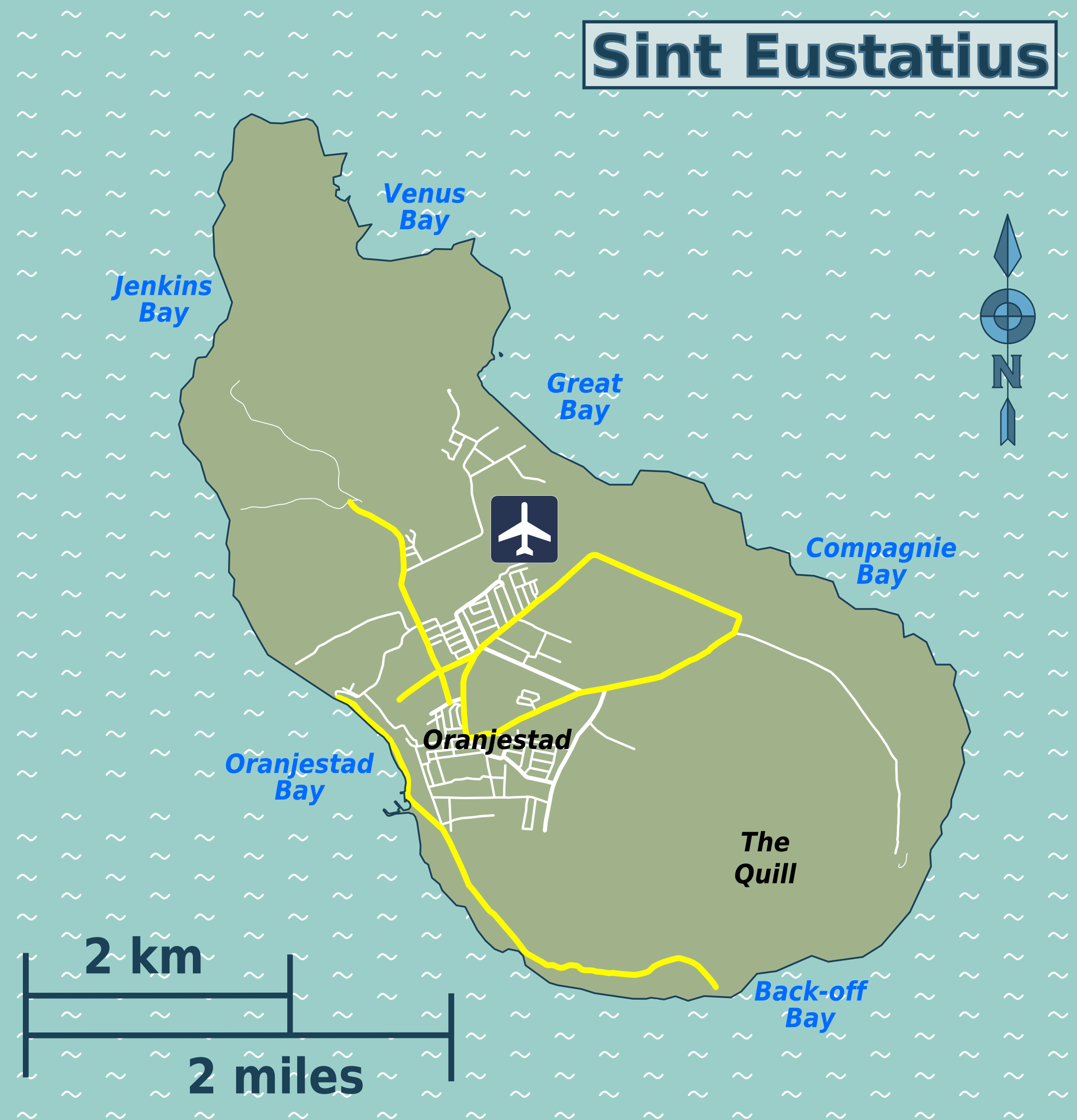 Travel map of Sint Eustatius